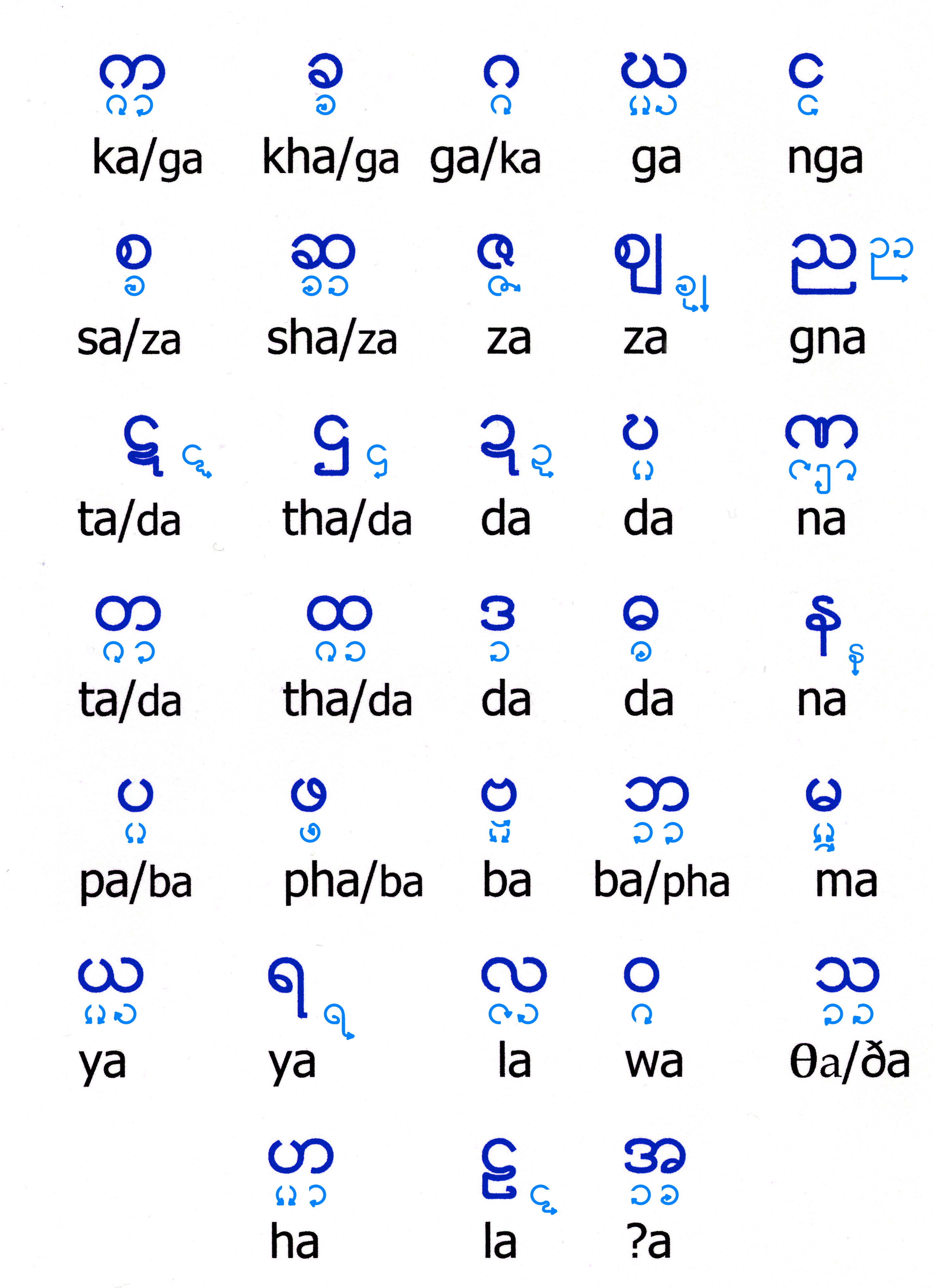 stroke order of Burmese consonant alphabets